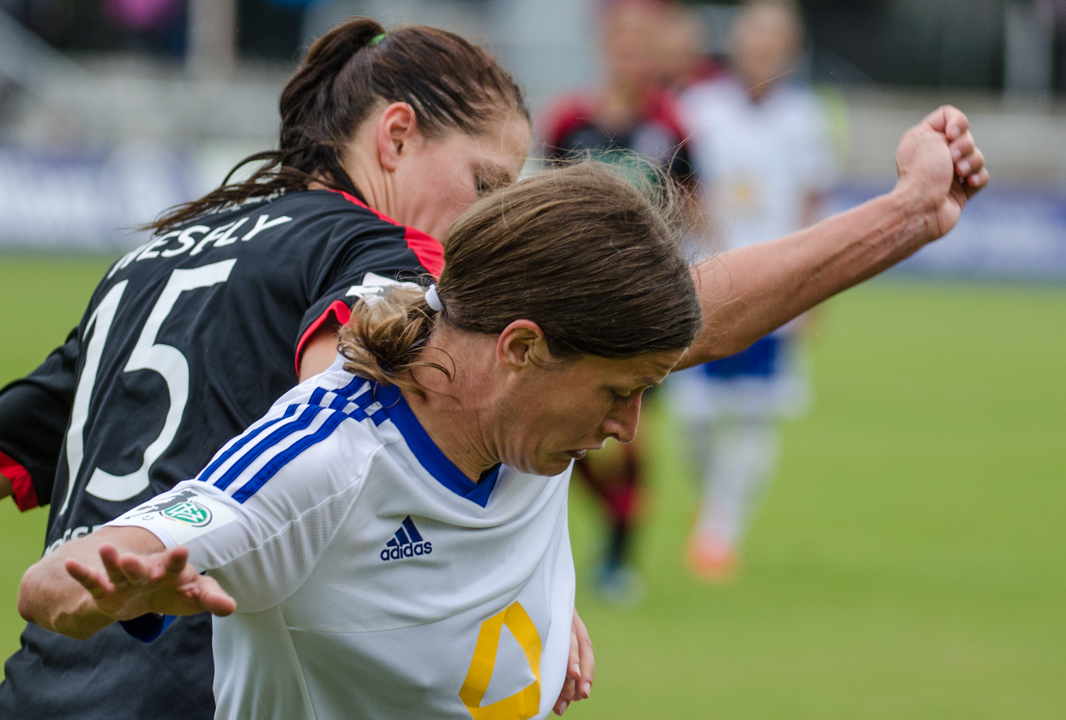 Match of the German Women's Football Bundesliga between 1.FFC Frankfurt and 1. FFC Turbine Potsdam, 2015-09-13